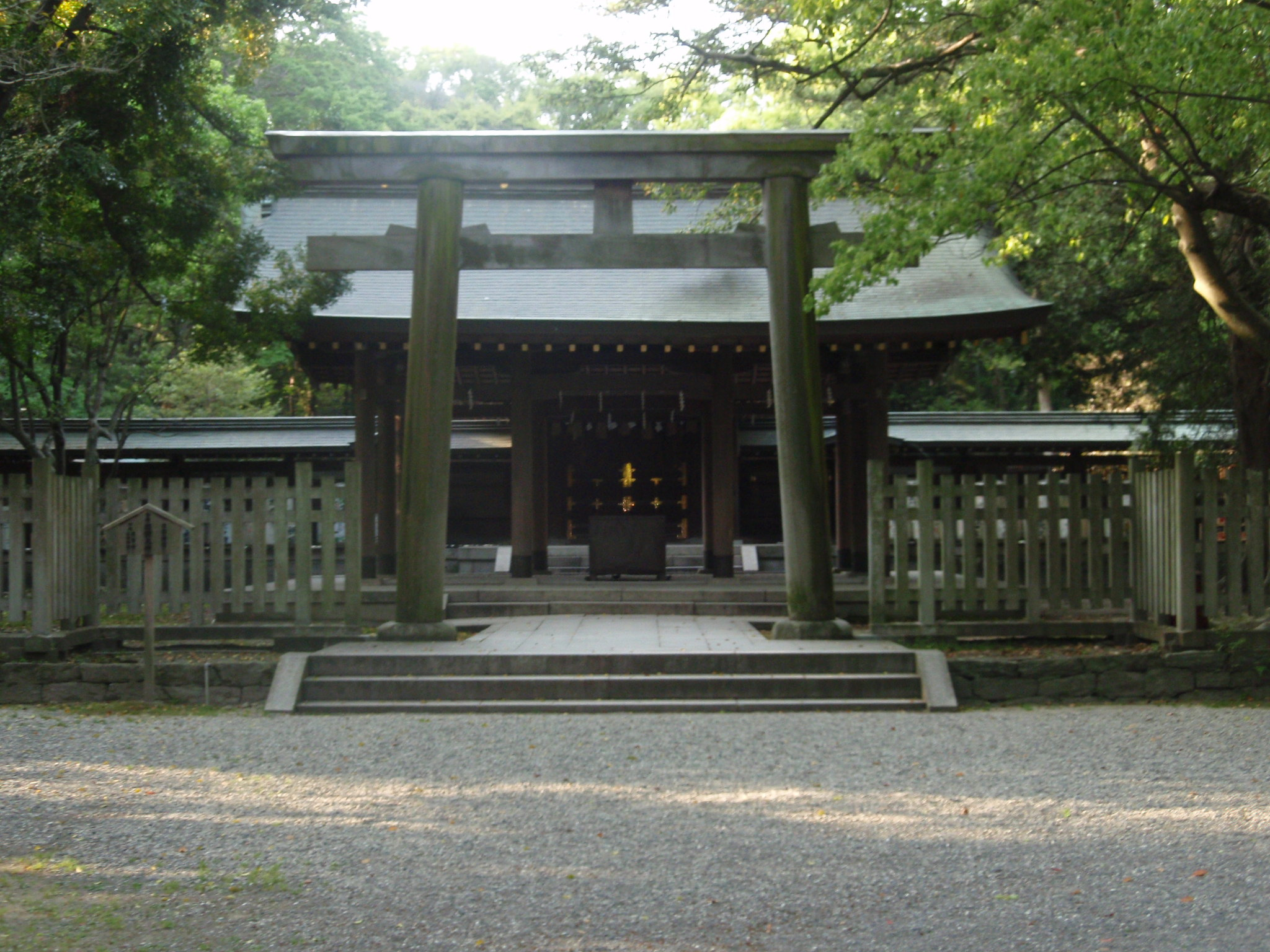 The haiden (hall of worship) of Hinokuma shrine